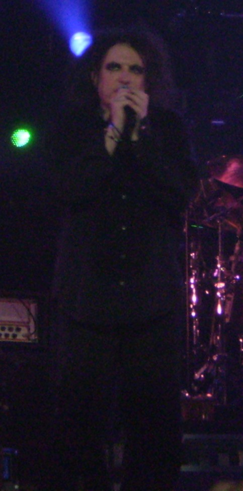 Robert Smith of The Cure live in Rome